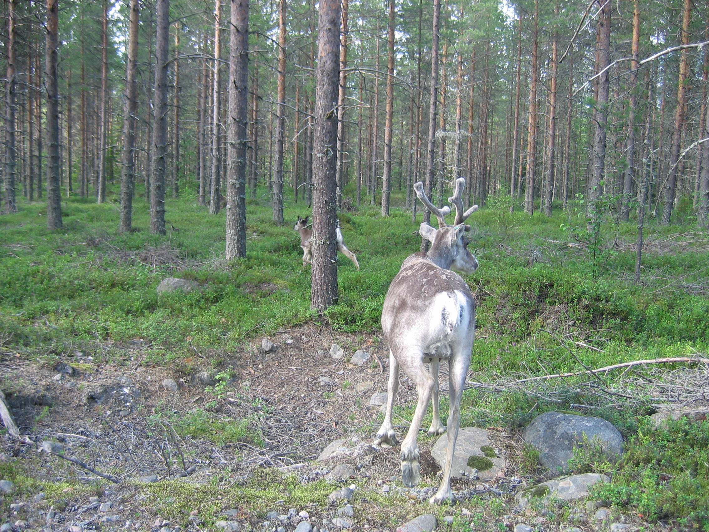 Reideers at Hillatie in Juorkuna, Utajärvi, Finland